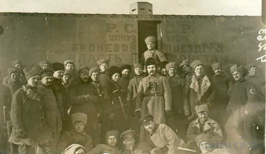 Commander of the Red 13th Army Innokentiy Kozhevnikov stands in front of the armoured train "Power to the Soviets". Left to him there stands Lyudmila Mokiyevskaya-Zubok, commander of the train and the only woman in history to command an armoured train. The photo was taken in Donbass in February-early March 1919.